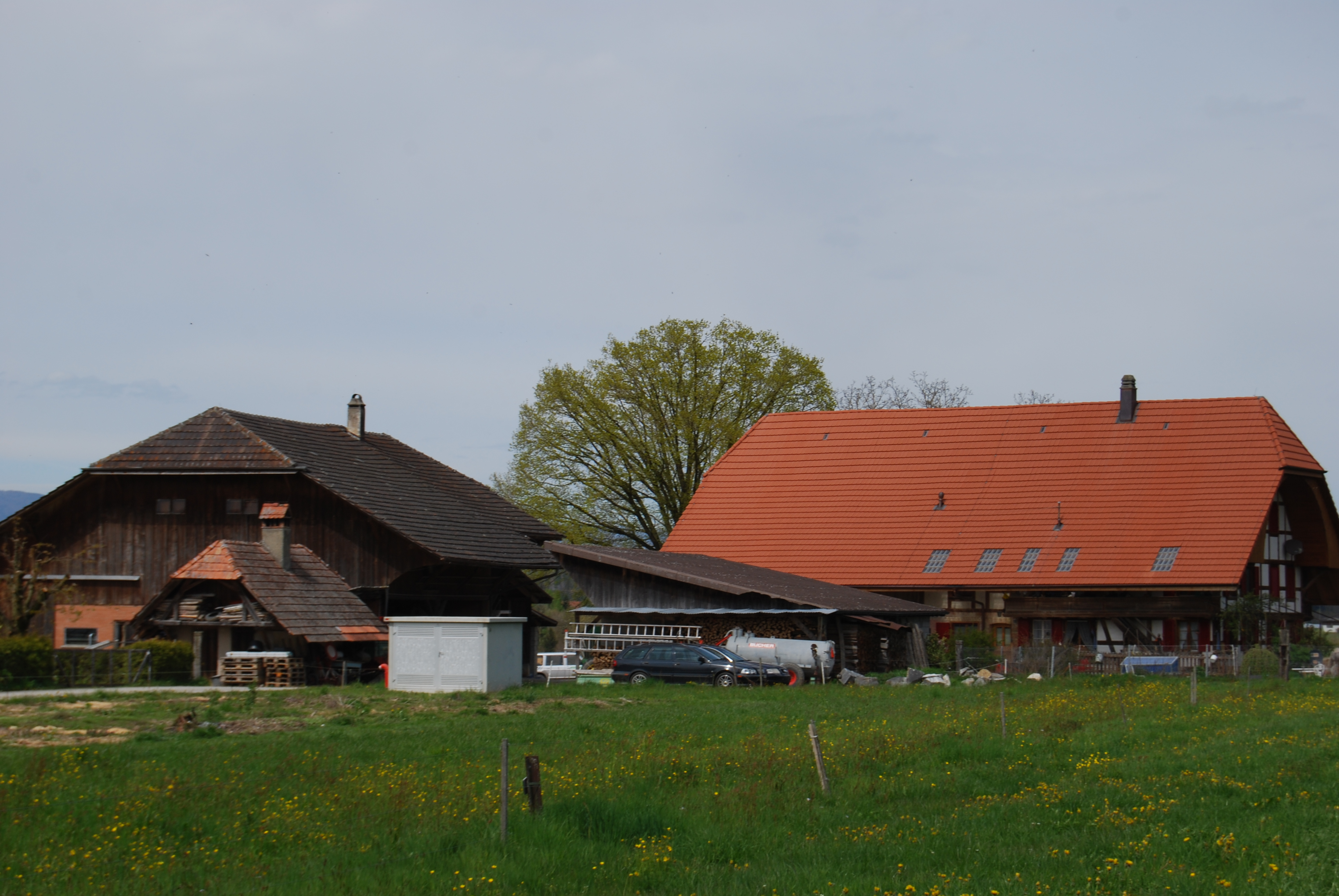 Ferenbalm, canton of Bern, SwitzerlandEsperanto: Ferenbalm, Kantono Berno, Svislando